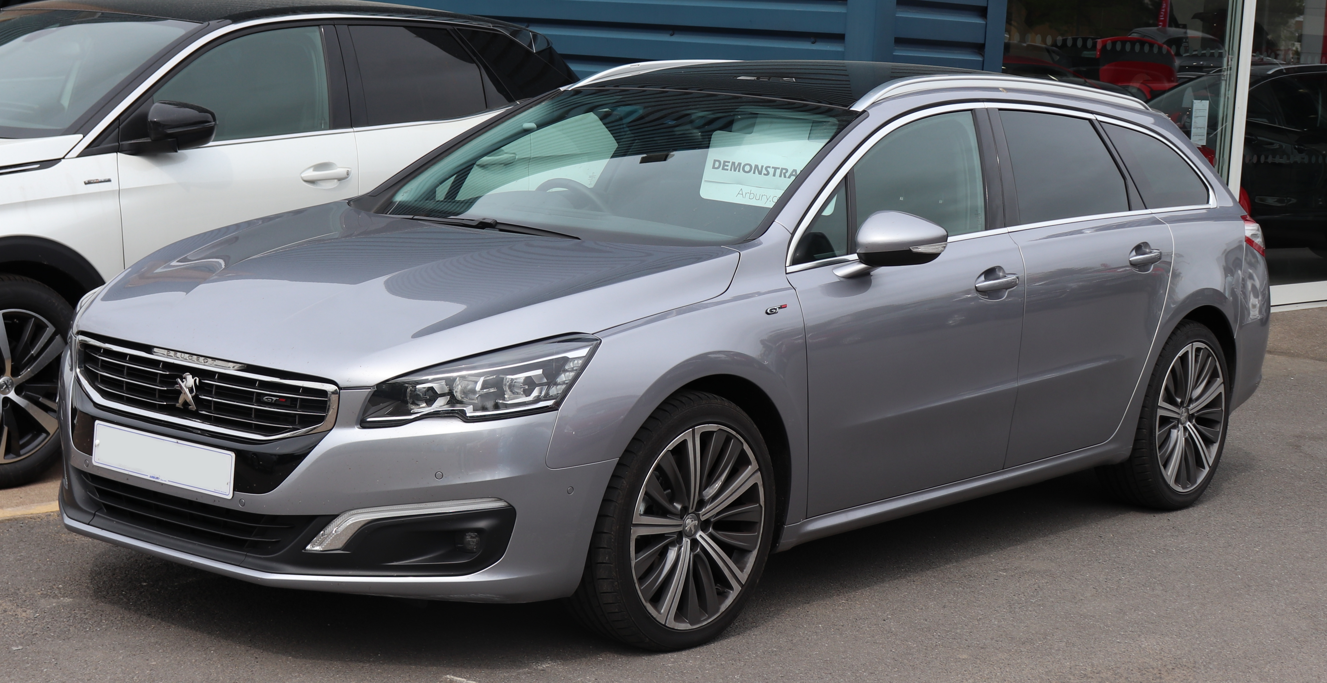 2018 Peugeot 508 GT SW HDi Automatic 2.0 Front Taken in Leamington Spa